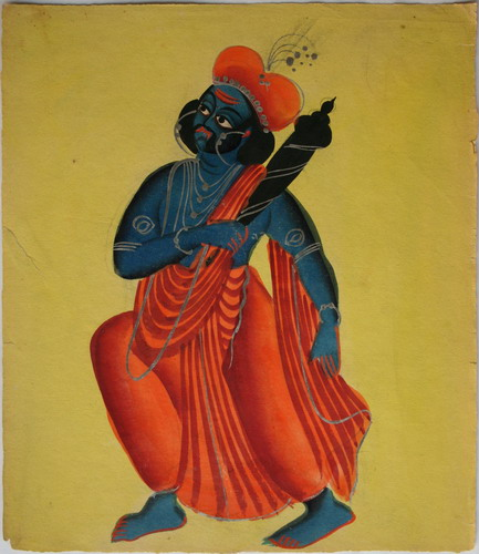 Yama, Kalighat painting